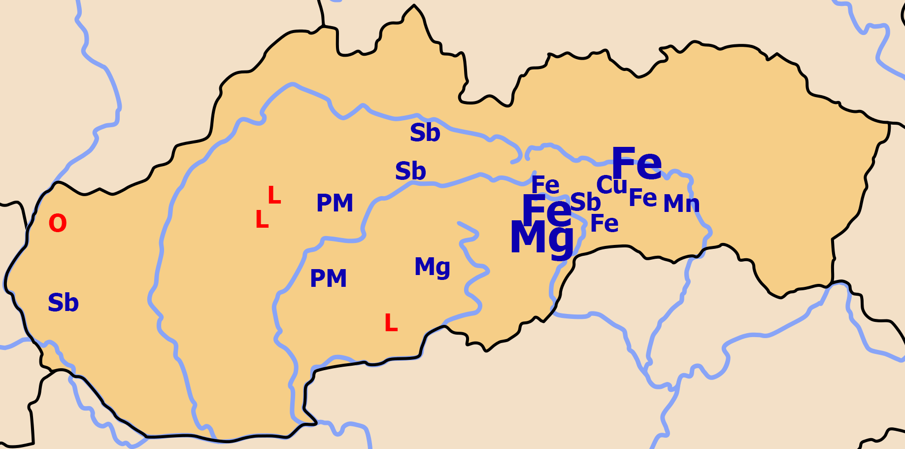 Natural resources of Slovakia. Mn — manganese, Fe — iron ore, Cu — copper, Sb — antimony; PM is for polymetals (Zn, Pb and similar metals). Mg marks Magnesium (MgCO3). Fossil fuels are in red: L — lignite, O — oil. Data is from the map of Czechoslovakia (Moscow: GUGK SSSR, 1983).